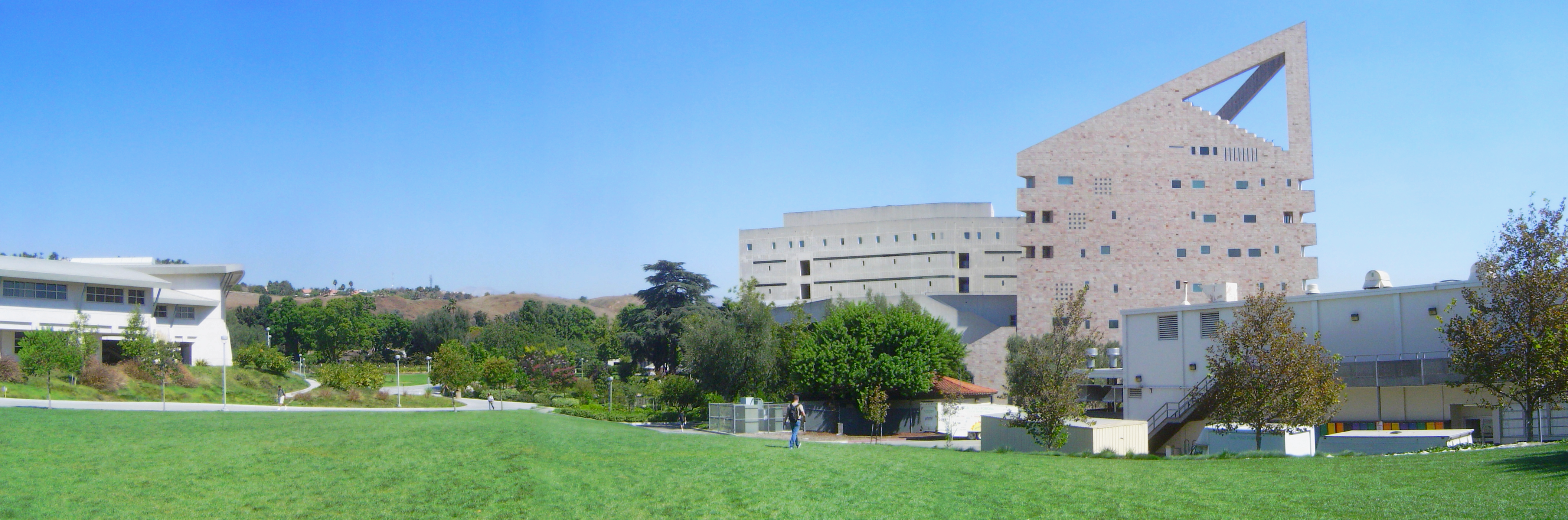 Composite photo taken by Xanadu on September 30, 2005. Slight distortion of the classroom section of the CLA building (The pure concrete building looks like it's oddly bent)